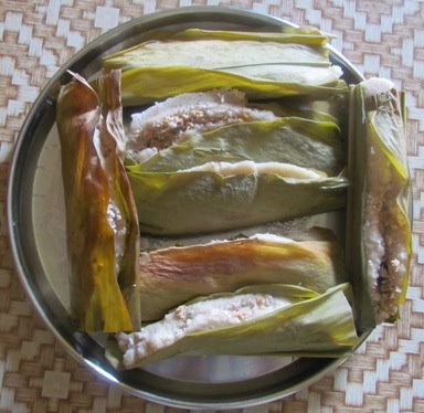 steamed cake with Turmeric leaf wrapping made in Orissa on the occasion of Prathamashtami